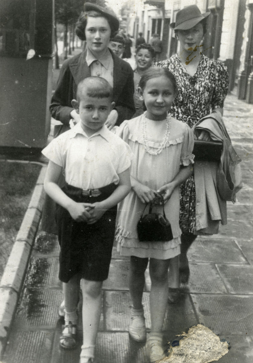 In the back: Ewa Kracowska with her cousin Judith. In the front: Ewa's brother Julik Krakowska and Judith's daughter.